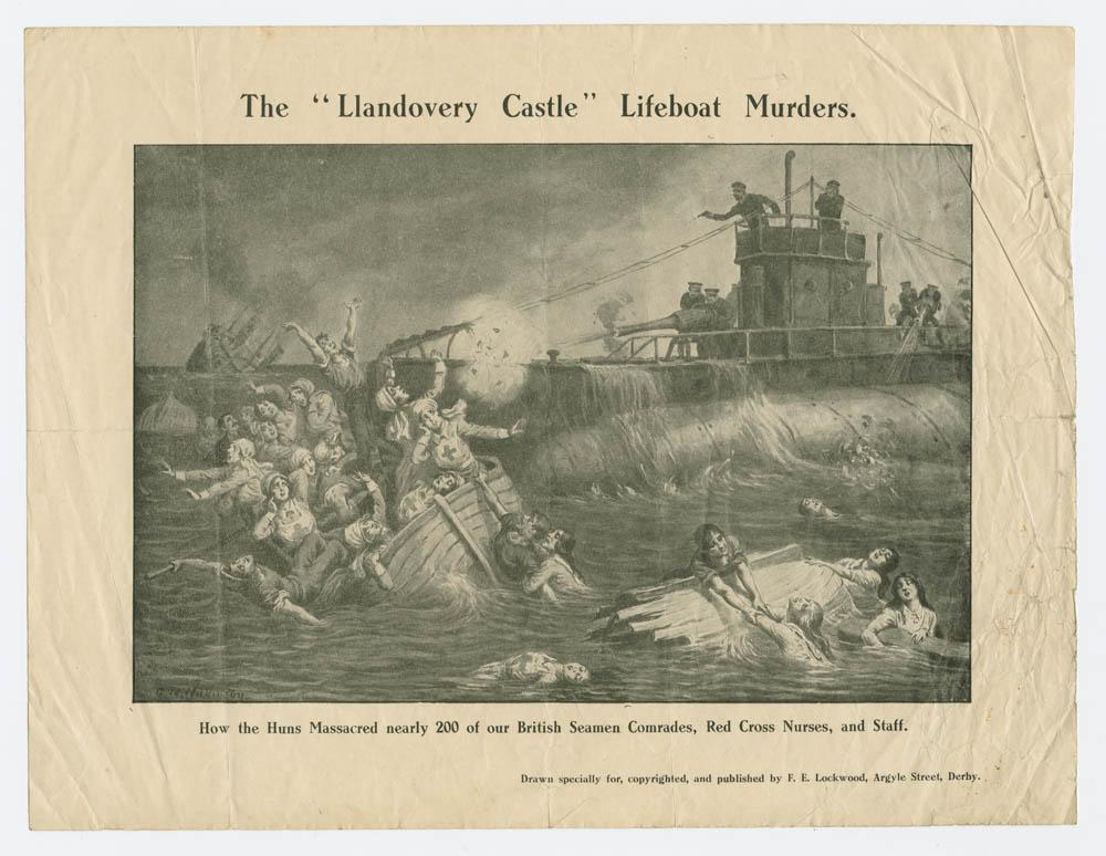 Llandovery Castle by Wilkinson, G.W., print (art), 27 June 1918